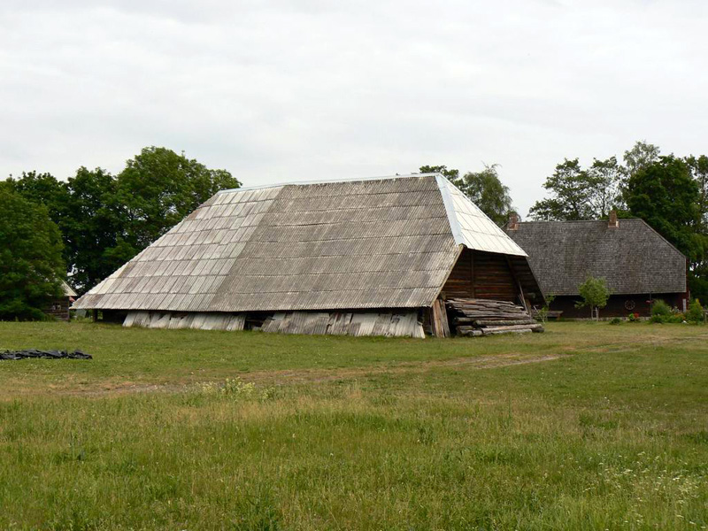 Šuminai village, Utena district.